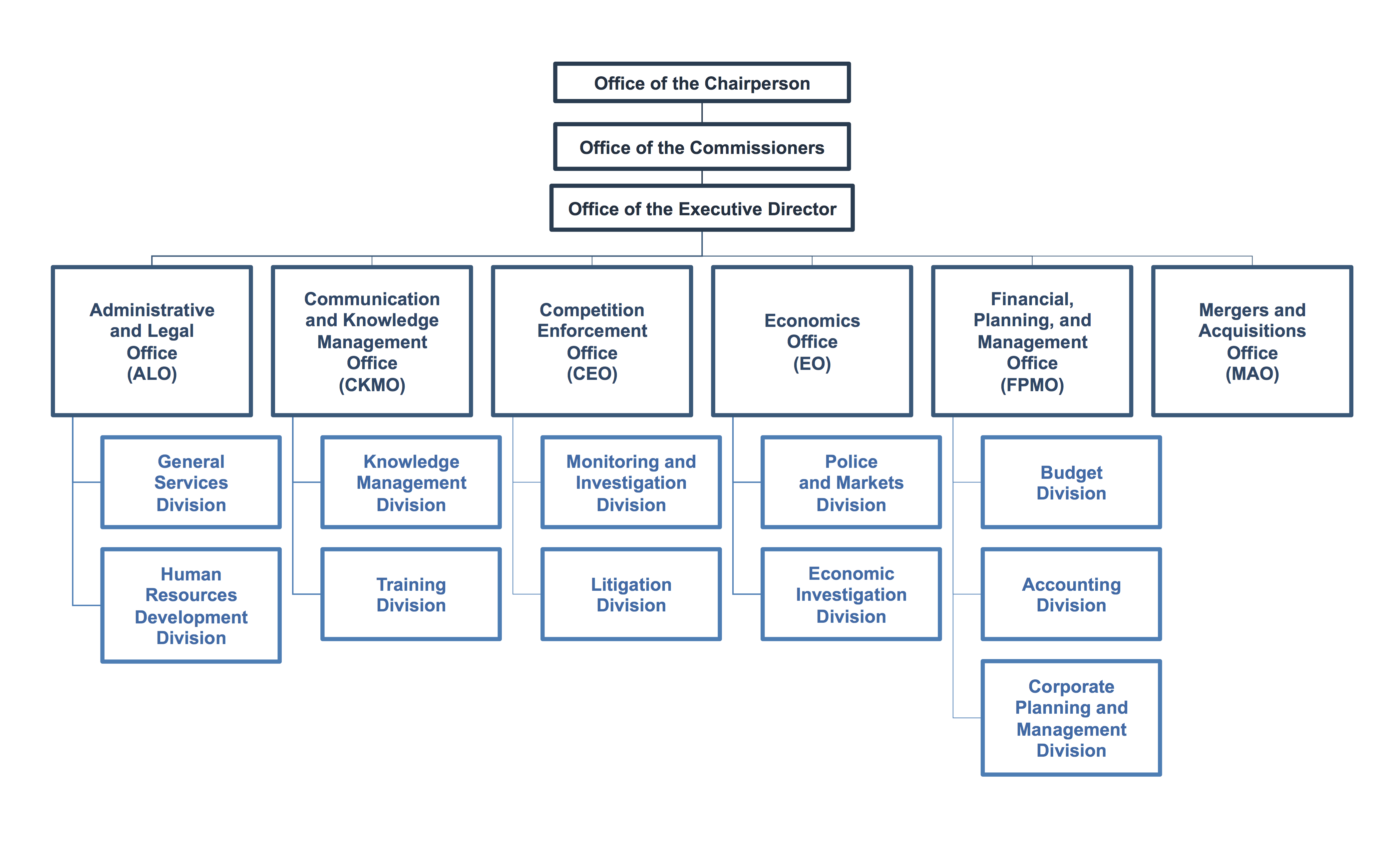 A chart detailing the organizational hierarchy of the Philippine Competition Commission